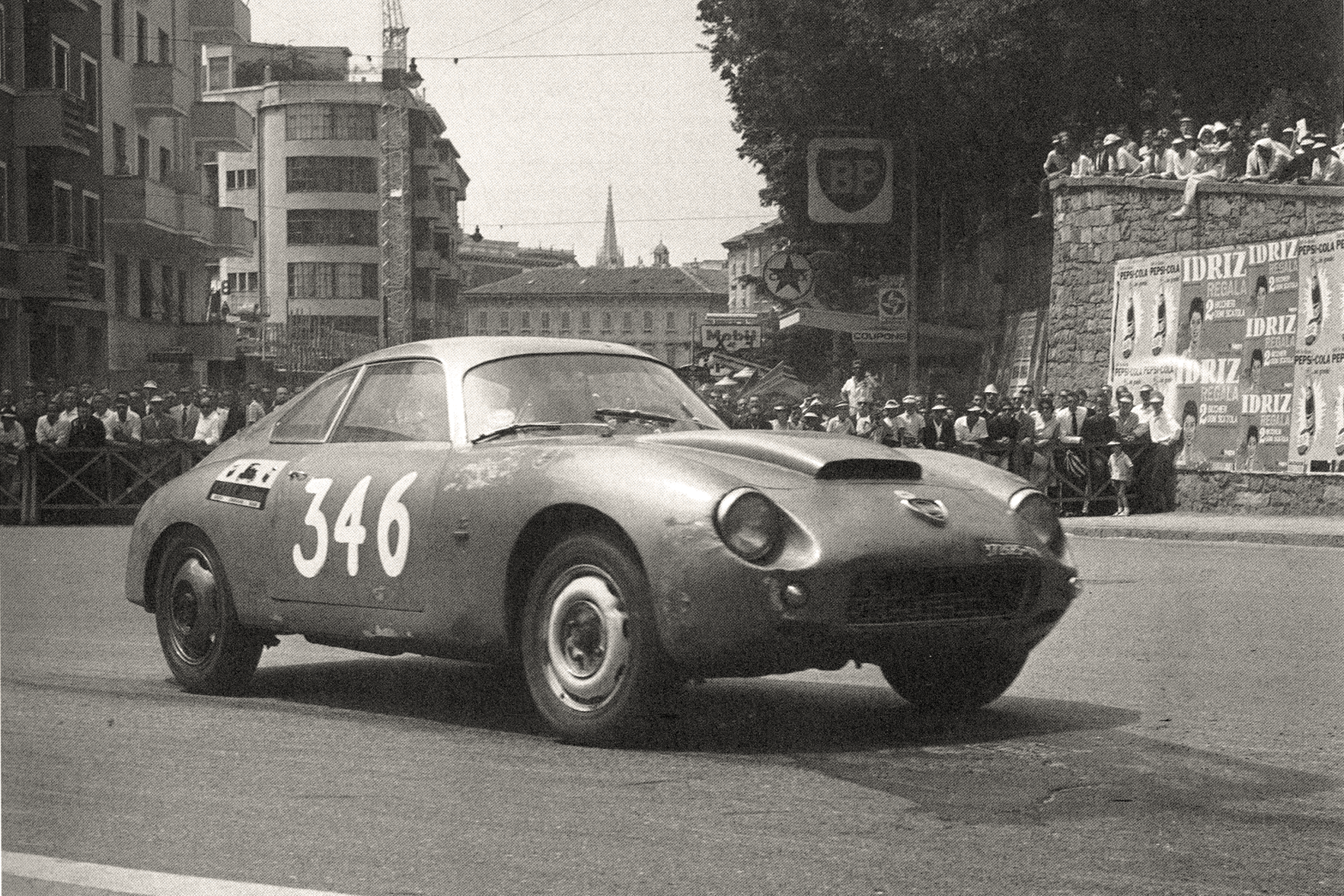 Entry #346 at the Trieste-Opicina race on 22 July 1962 was a Lancia Flaminia Sport Zagato driven by Piero Frescobaldi. (It looks almost like a Lancia Appia Sport Zagato...